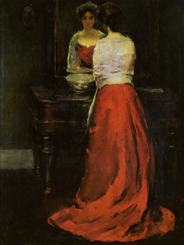 Lady in Red